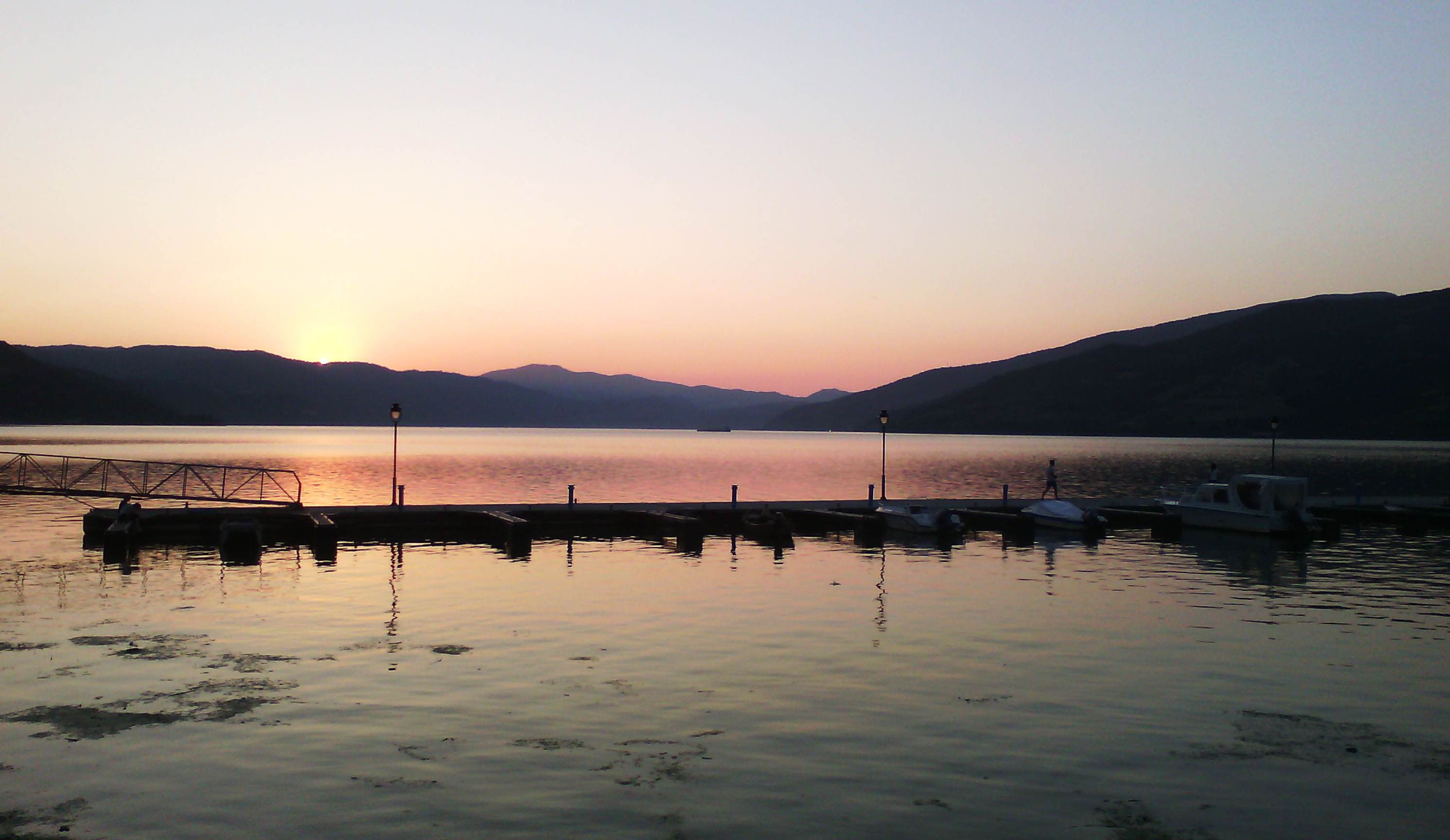 Marina u Donjem Milanovcu tokom zalaska sunca. Marina in Donji Milanovac during sunset.